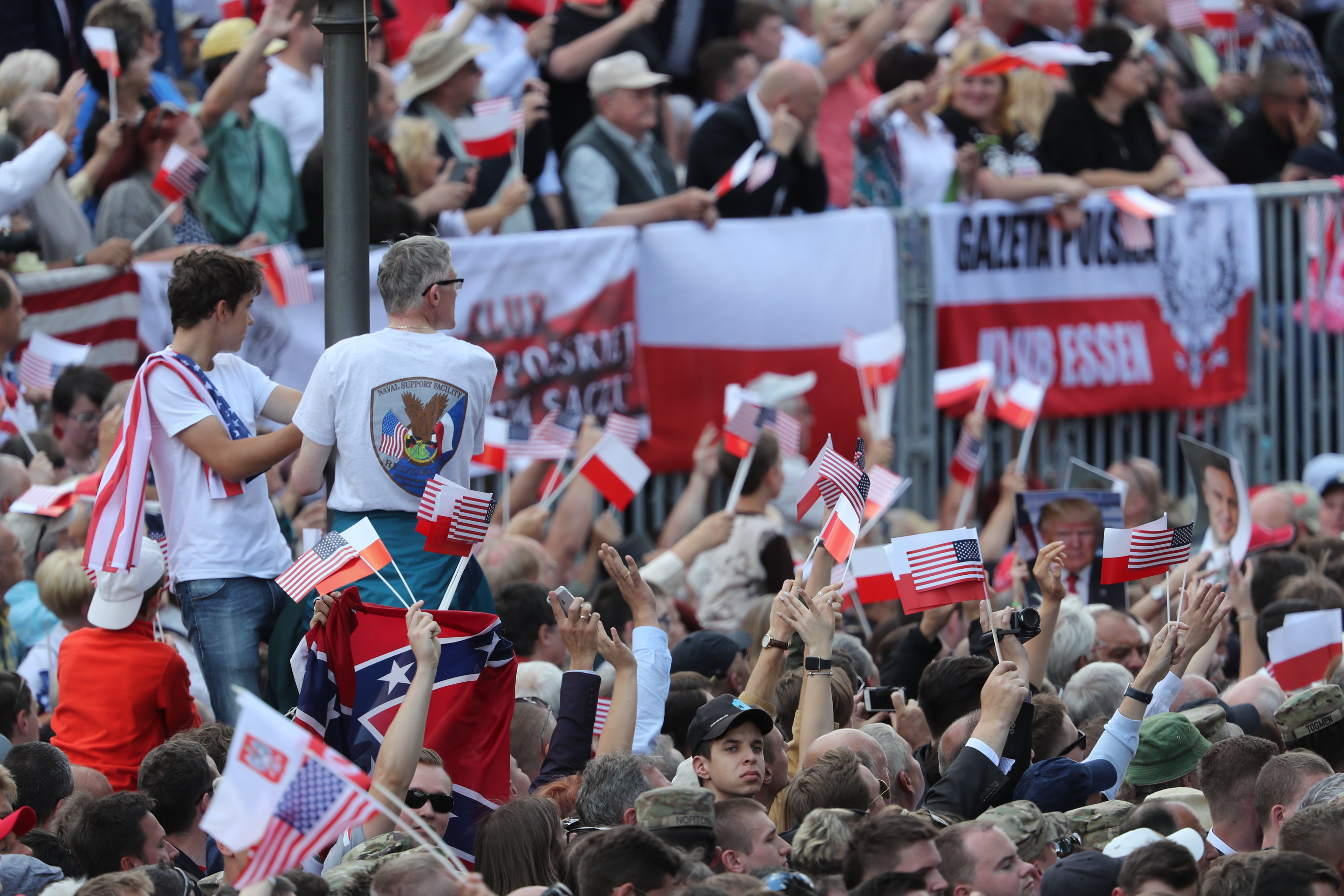 A visit of the US President Donald Trump to Poland in Warsaw in 2017.